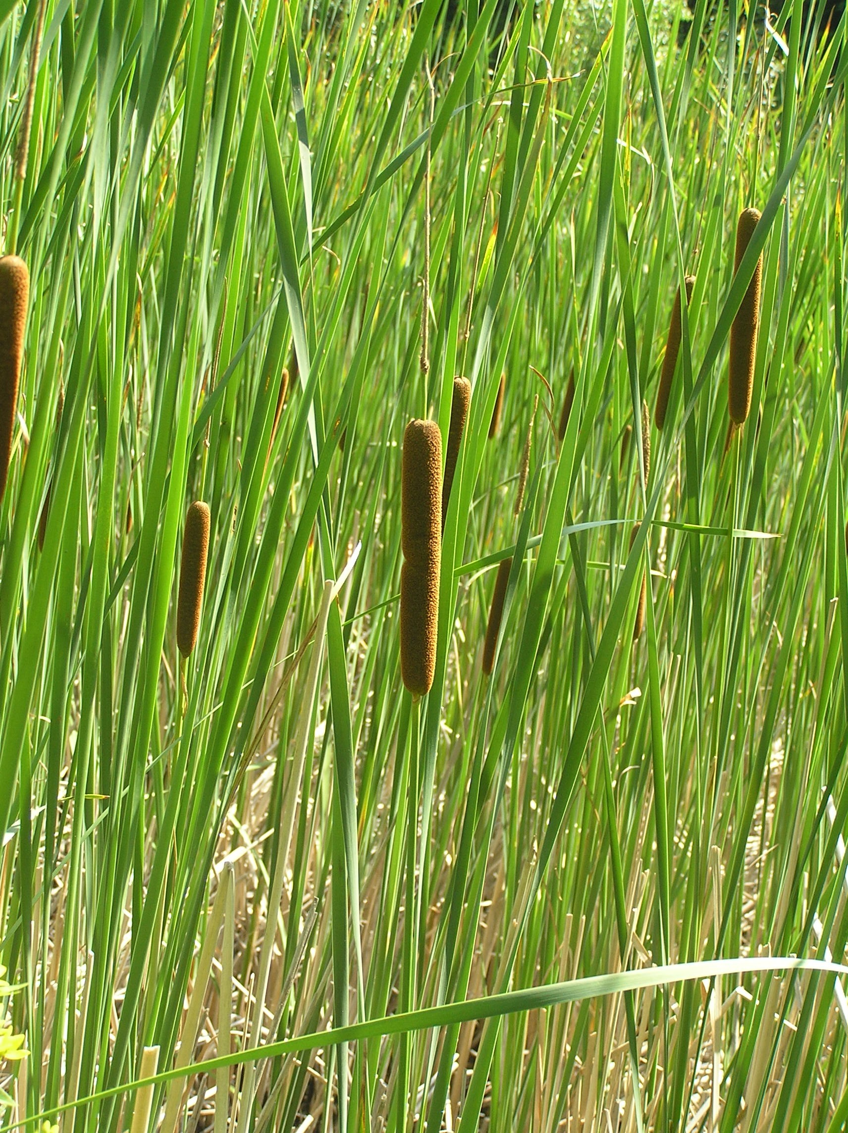 Typha angustifolia, from Bílé Karpaty Mountains, Rasová near Starý Hrozenkov, Czech Republic